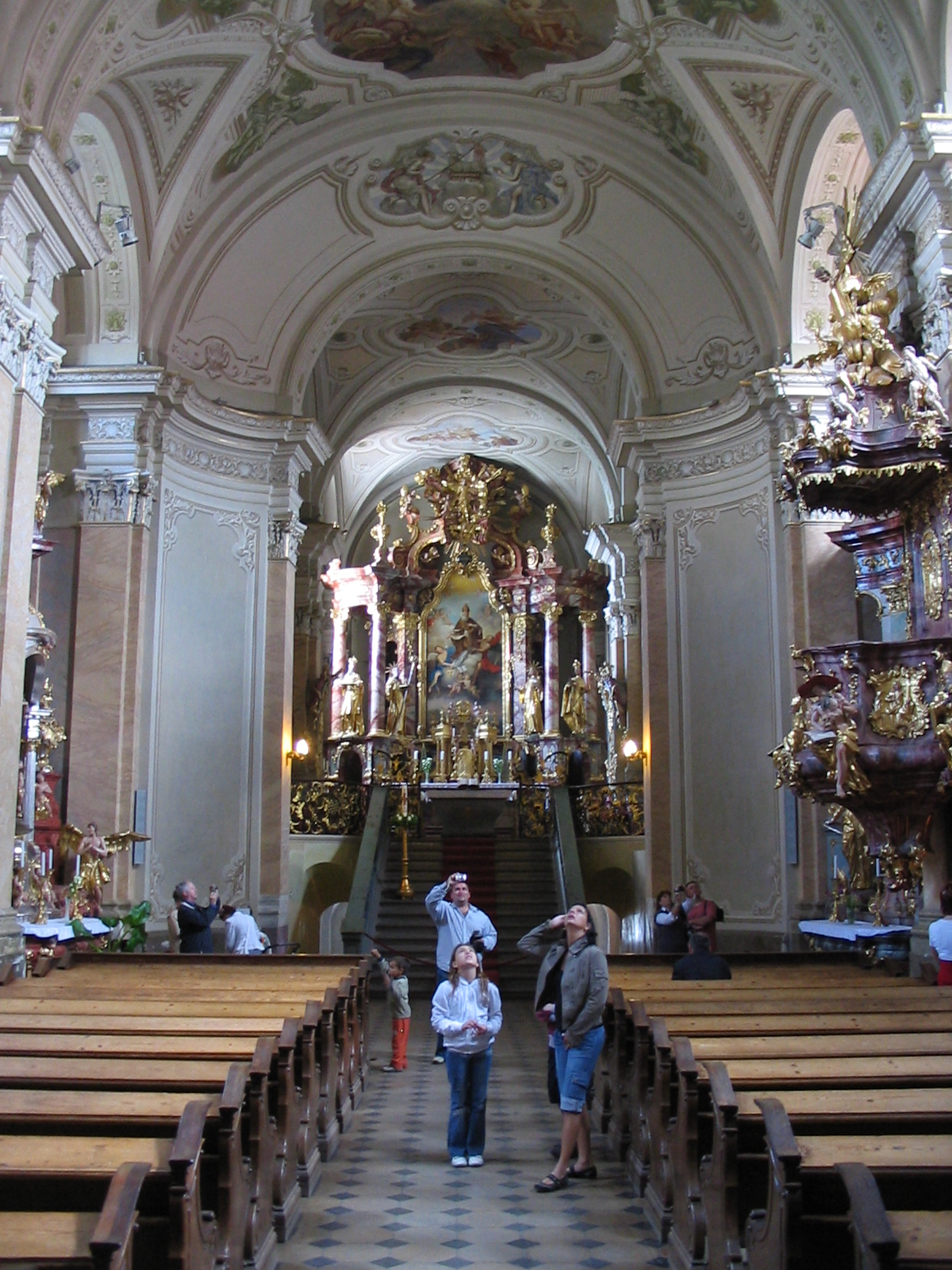 the interior of the benedictine abbey in Tihany